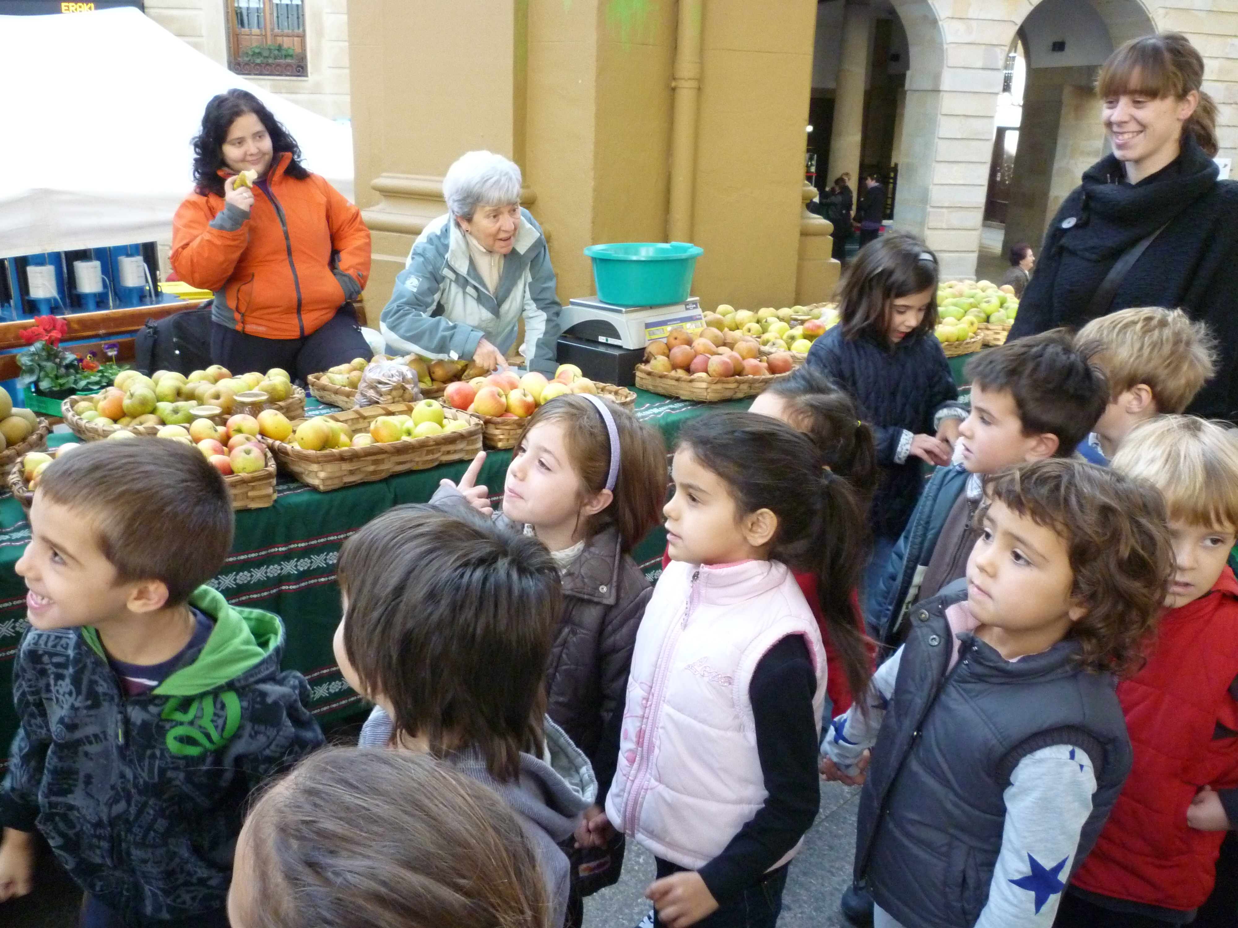 Farmer selling apples at the market of Ordizia.